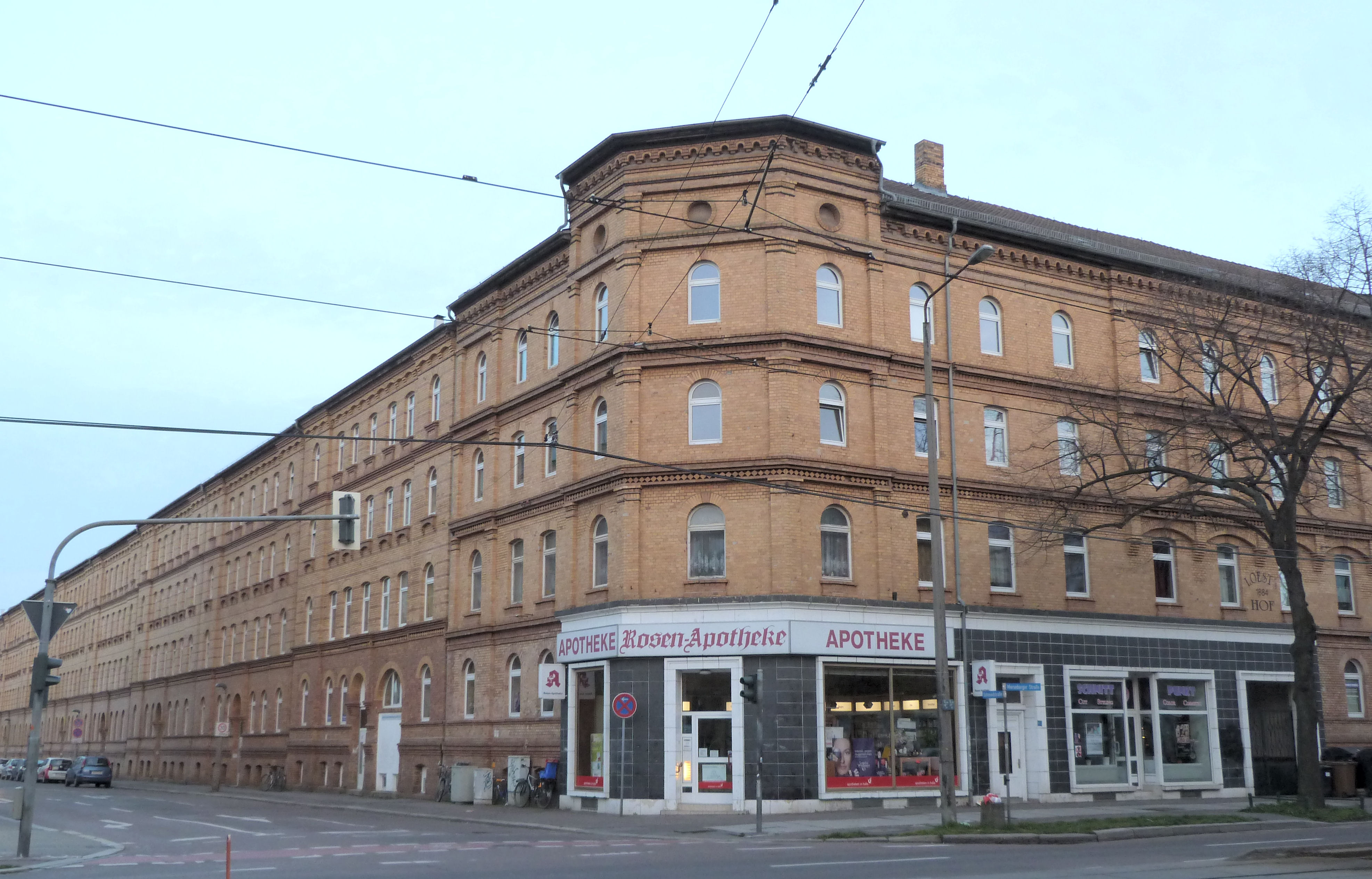 Merseburger Strasse No. 101, Loests Hof, Halle (Saale)